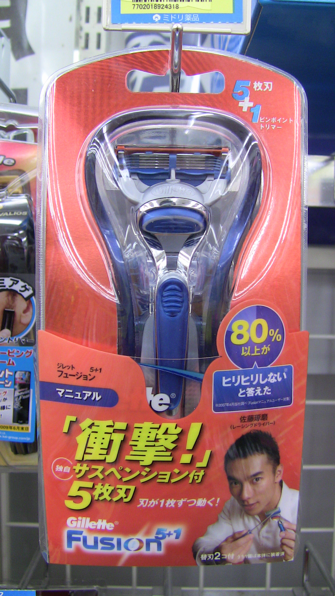 Gillette_fusion